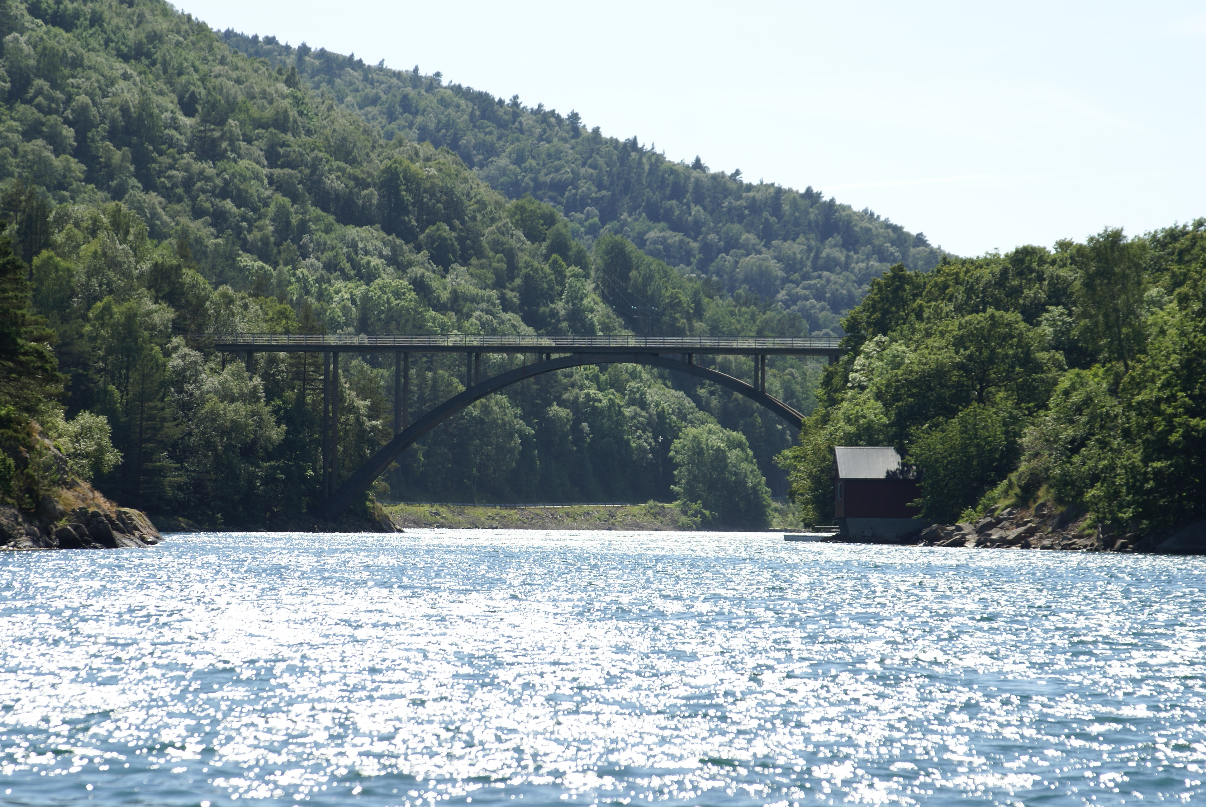 Bridge of Jaasund